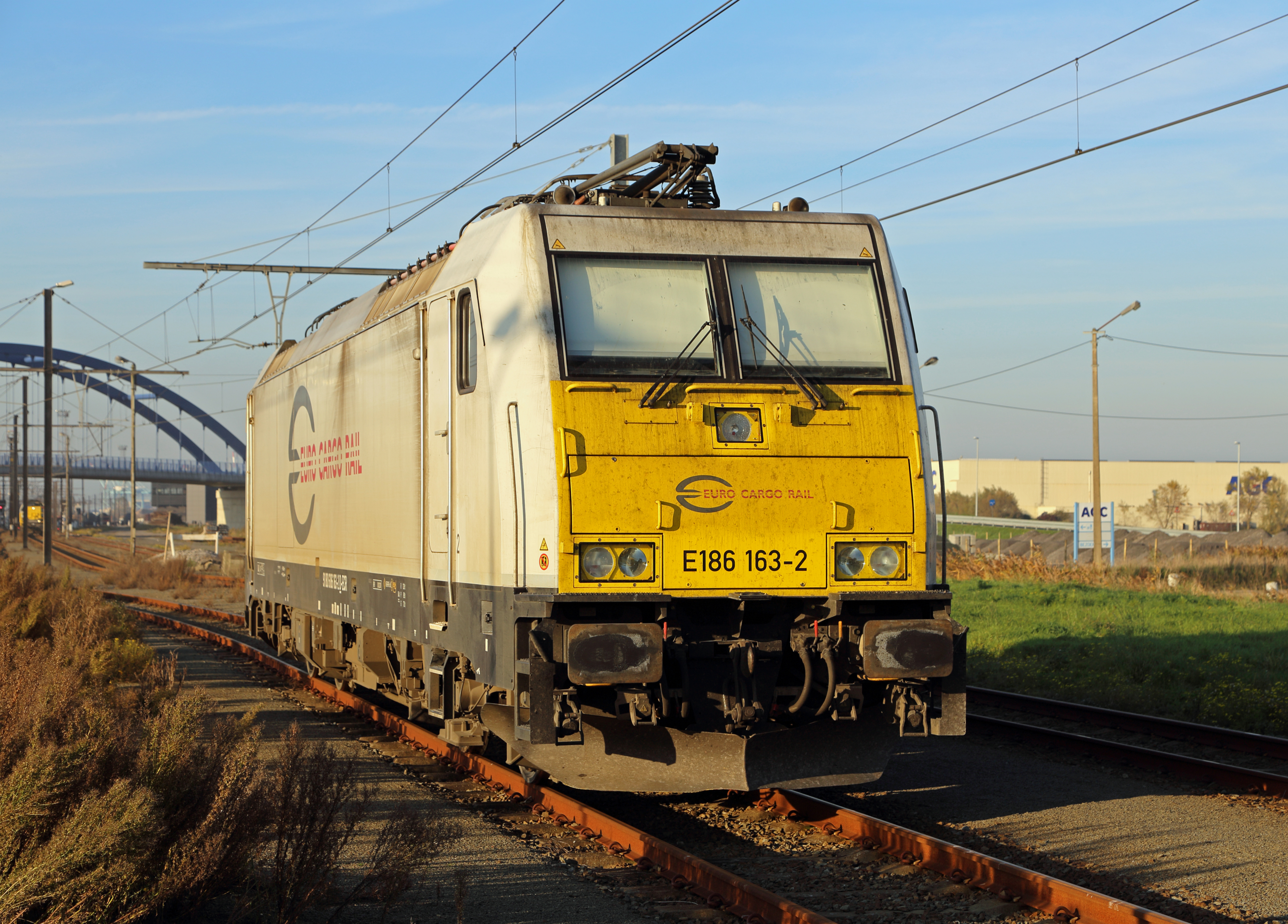 Electric locomotive E186 163-2 of French rail freight operator Euro Cargo Rail (type: Bombardier TRAXX)